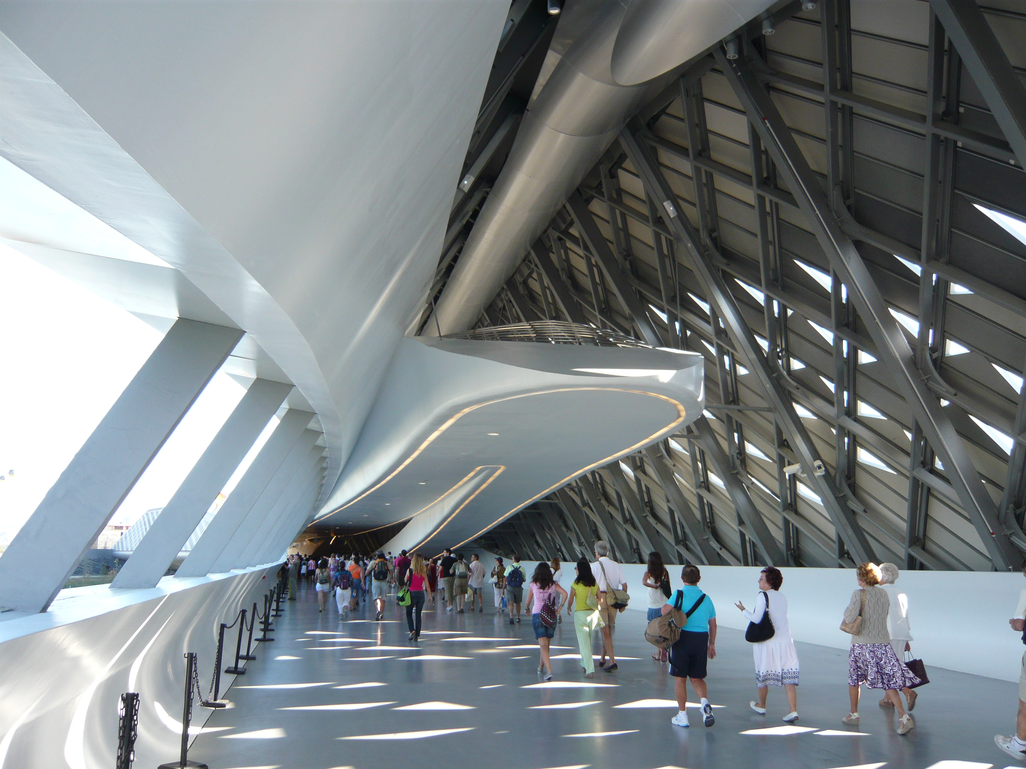 Bridge Pavillion of the International Exposition Zaragoza 2008